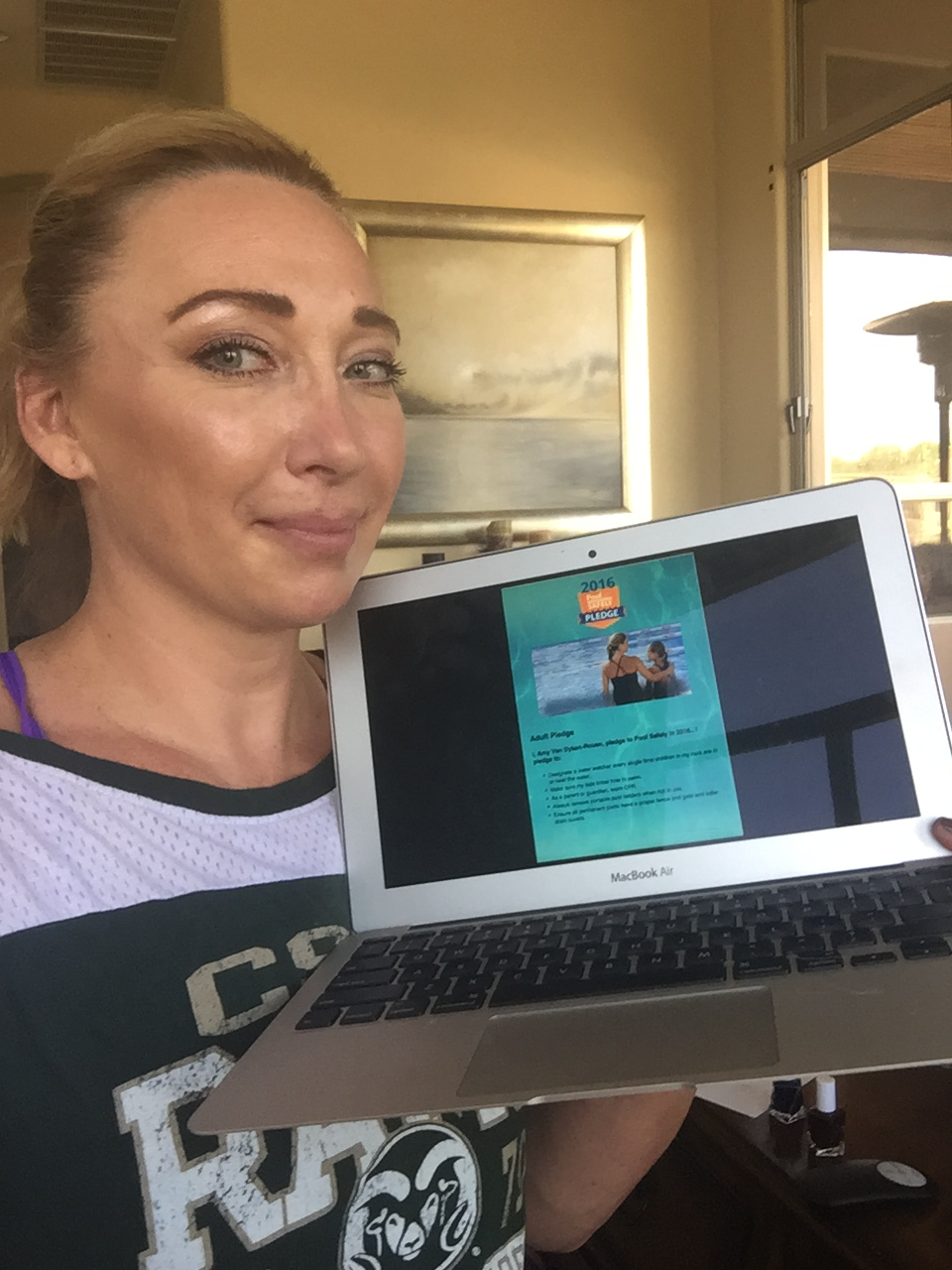 Six-time Olympic gold medalist Amy Van Dyken takes the Pool Safely Pledge.